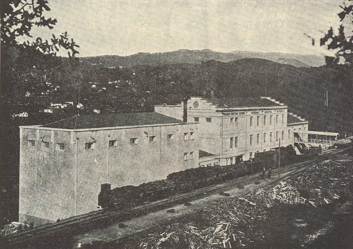 Vouga Flour Mill, that was located next to the Paradela Railway Station, in Sever do Vouga, Portugal. This image was published on the Gazeta dos Caminhos de Ferro magazine no. 1363, of the 1st October 1944, and scanned by the Hemeroteca Municipal de Lisboa.